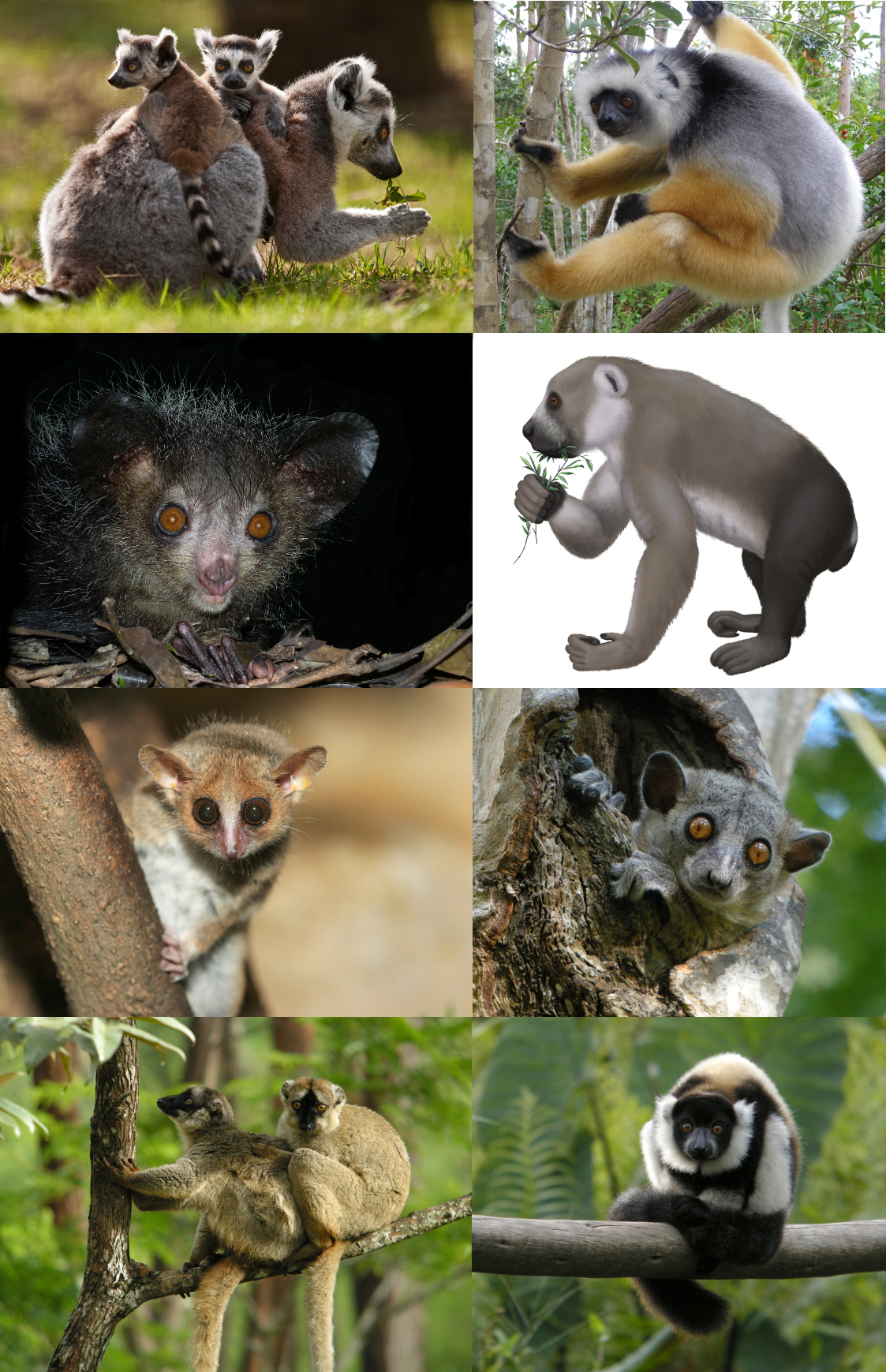 Variety of lemurs, from top to bottom and left to right: Ring-Blanca Redondo(Lemur catta) Diademed Sifaka (Propithecus diadema) Aye-aye (Daubentonia madagascariensis) Giant sloth lemur (Archaeoindris fontoynonti) Gray mouse lemur (Microcebus murinus) Red-tailed sportive lemur (Lepilemur ruficaudatus) Red-fronted brown lemur (Eulemur rufifrons) Black-and-white ruffed lemur (Varecia variegata)